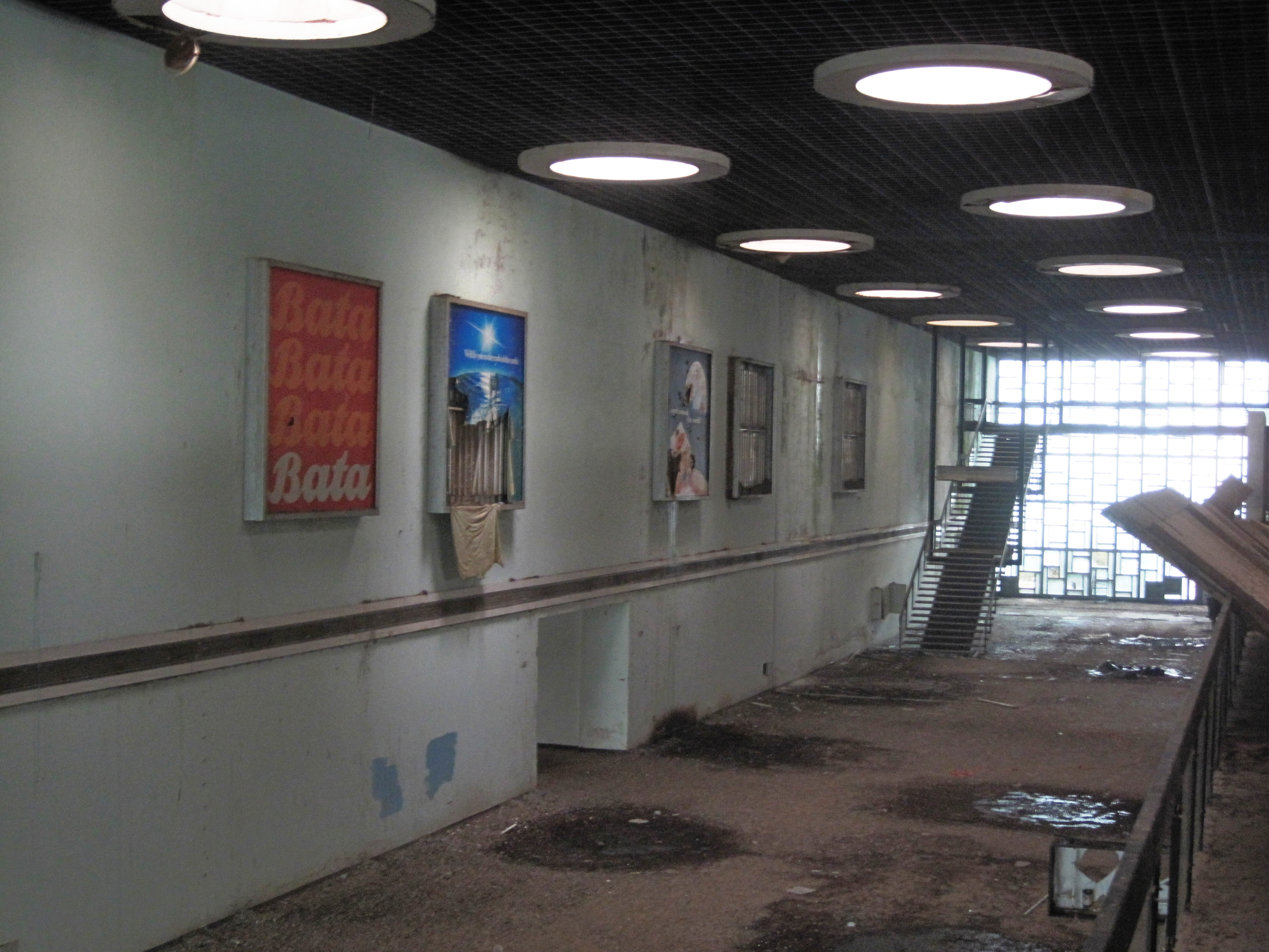 The main hall within the derelict terminal building at the closed Nicosia International Airport in the United Nations Buffer Zone in Cyprus. Advertisements dating from 1974 are still visible on the walls.